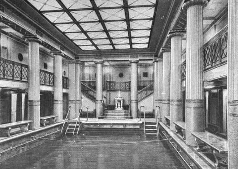 Photograph of the swimming pool on board the RMS Majestic circa 1922